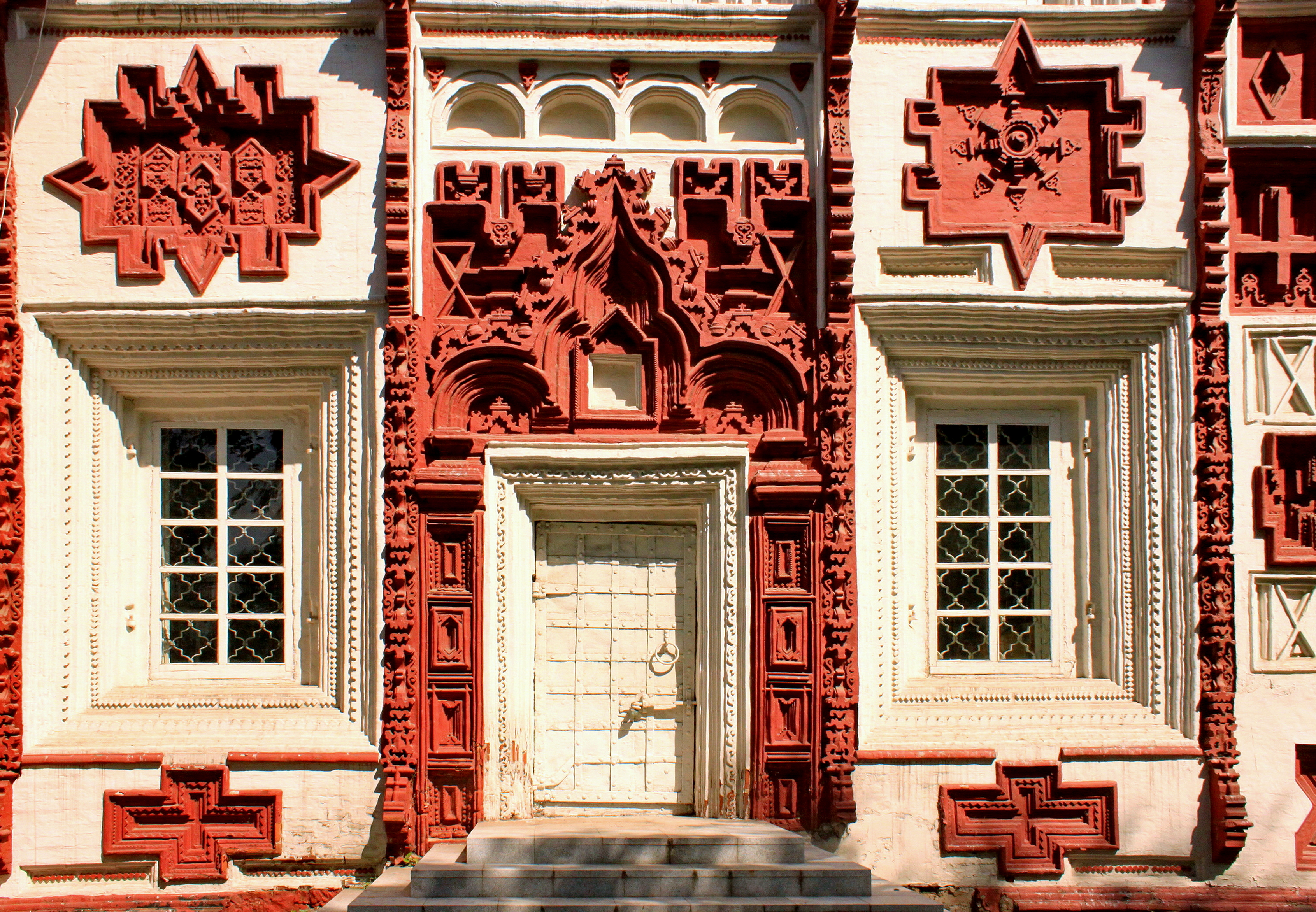 Church of the Exaltation of the Holy Cross. Irkutsk, Russia.